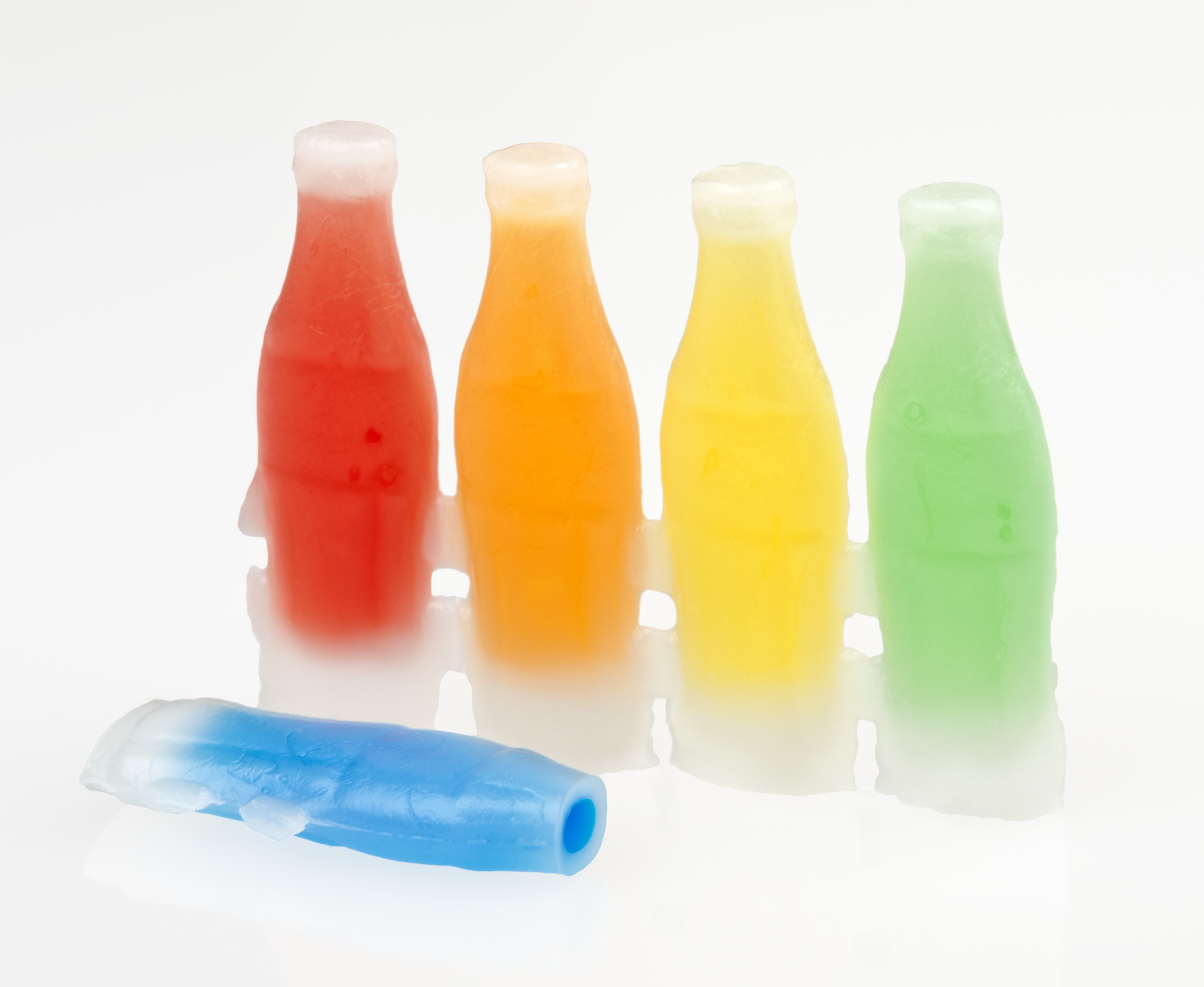 A standard five pack of Nik-L-Nip wax candy bottles, with one open. Made by Tootsie Roll Industries. Terrible candy.